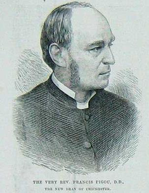 Dean of Chichester 1888-1891 Dean of Exeter 1891-1916